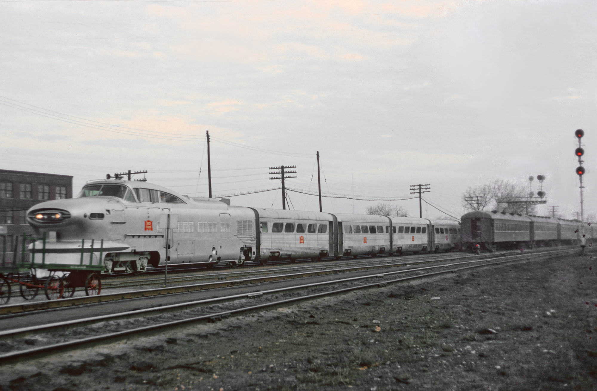 GM Aero Train in suburban service on the Chicago, Rock Island, and Pacific Railroad. The train is at Englewood Station in Chicago.